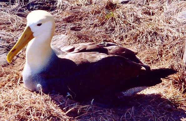 This is a cropped photograph of a Waved Albatross nesting on the Galapagos island of Española (Hood).